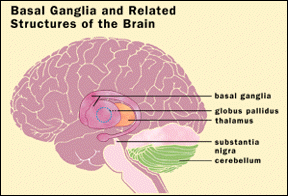 Basal Ganglia and Related Structures of the Brain